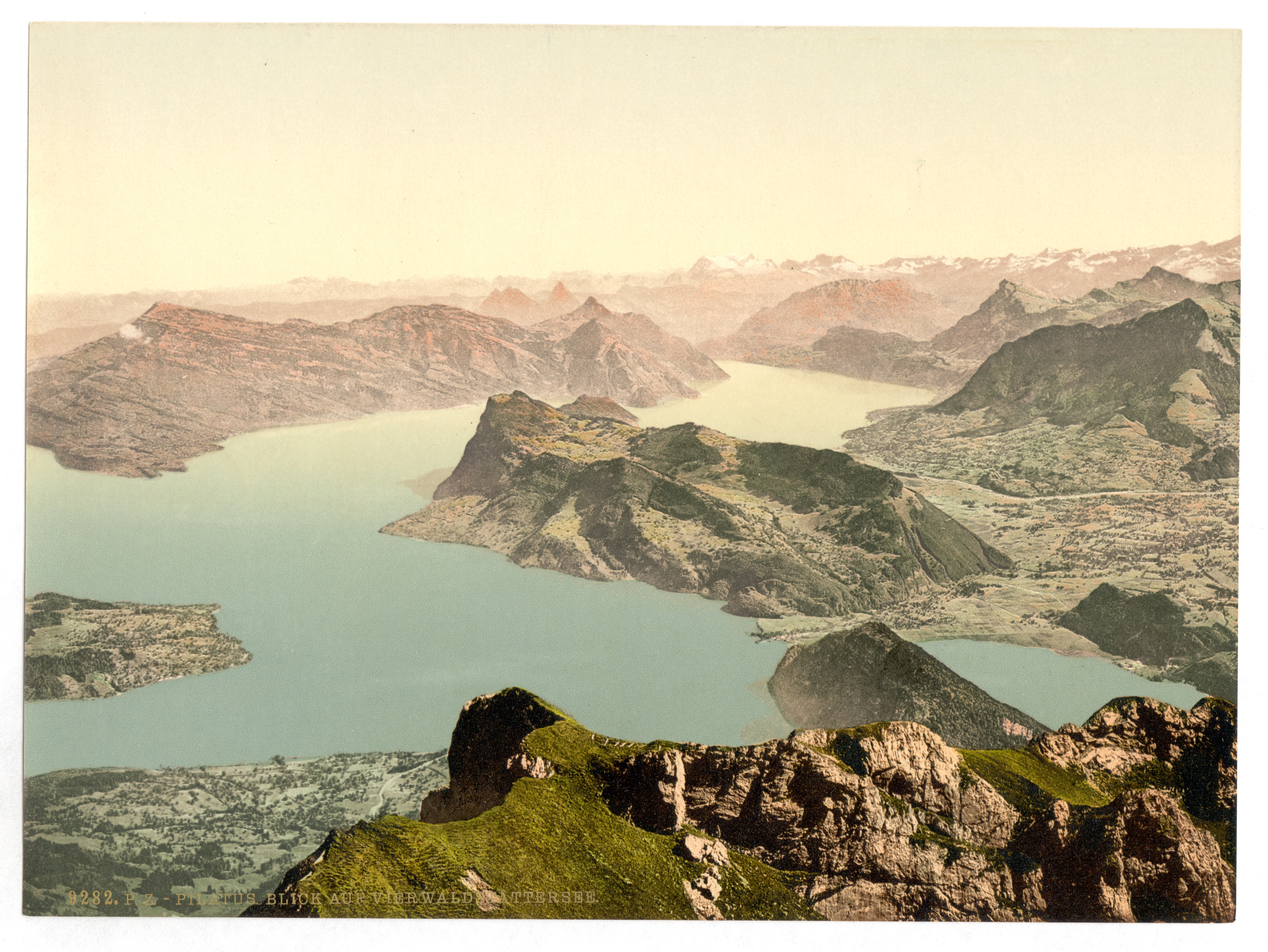 Print no. "9282".; Forms part of: Views of Switzerland in the Photochrom print collection.; Title from the Detroit Publishing Co., Catalogue J-foreign section, Detroit, Mich. : Detroit Publishing Company, 1905.